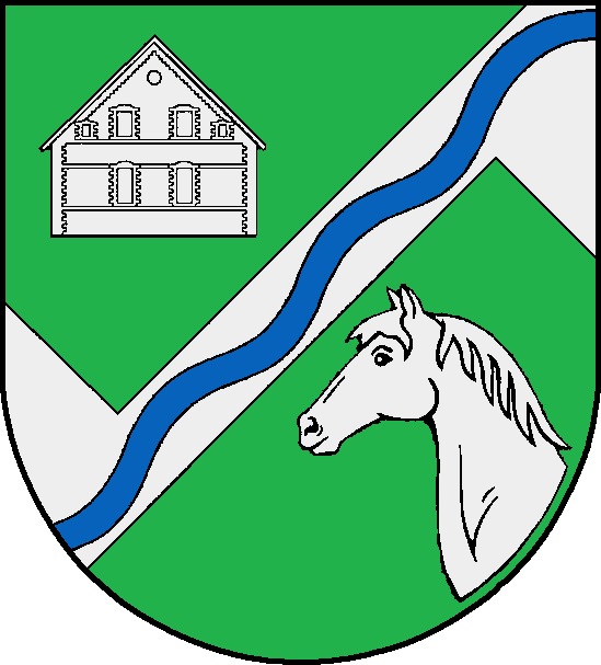 Coat of arms of the municipality Hardebek in Schleswig-Holstein, Germany.